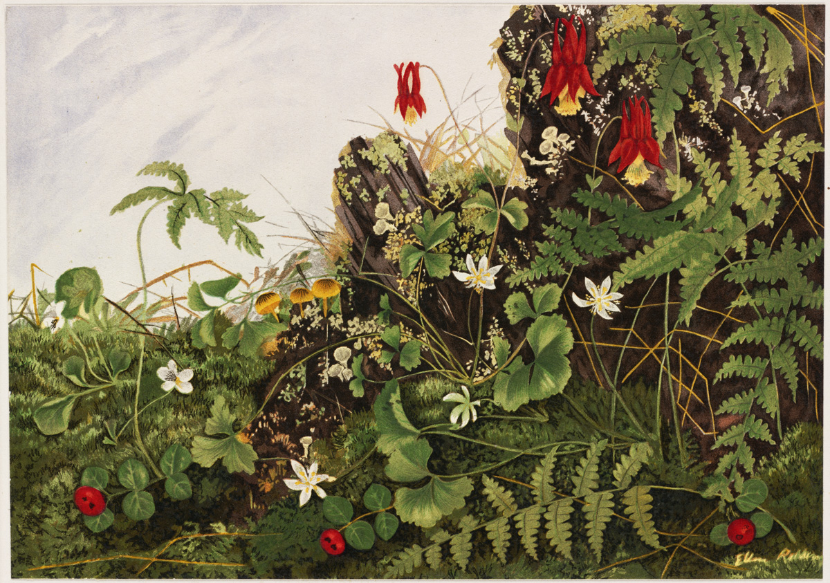 File name: 07_11_000454 Title: Wild Flowers No. 1 Creator/Contributor: Robbins, Ellen, 1828-1905 (artist); L. Prang & Co. (publisher) Date issued: 1861-1897 (approximate) Copyright date: Physical description note: Genre: Chromolithographs; Still life prints Location: Boston Public Library, Print Department Rights: No known restrictions Flickr data on 2011-08-07: Camera: Sinar AG Sinarback 54 FW, Sinar m License: CC BY 2.0 User: Boston Public Library BPL